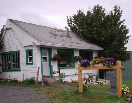 The Hammer Museum in Haines to be posted in the article for The Hammer Museum. Taken by the author, July 2005.